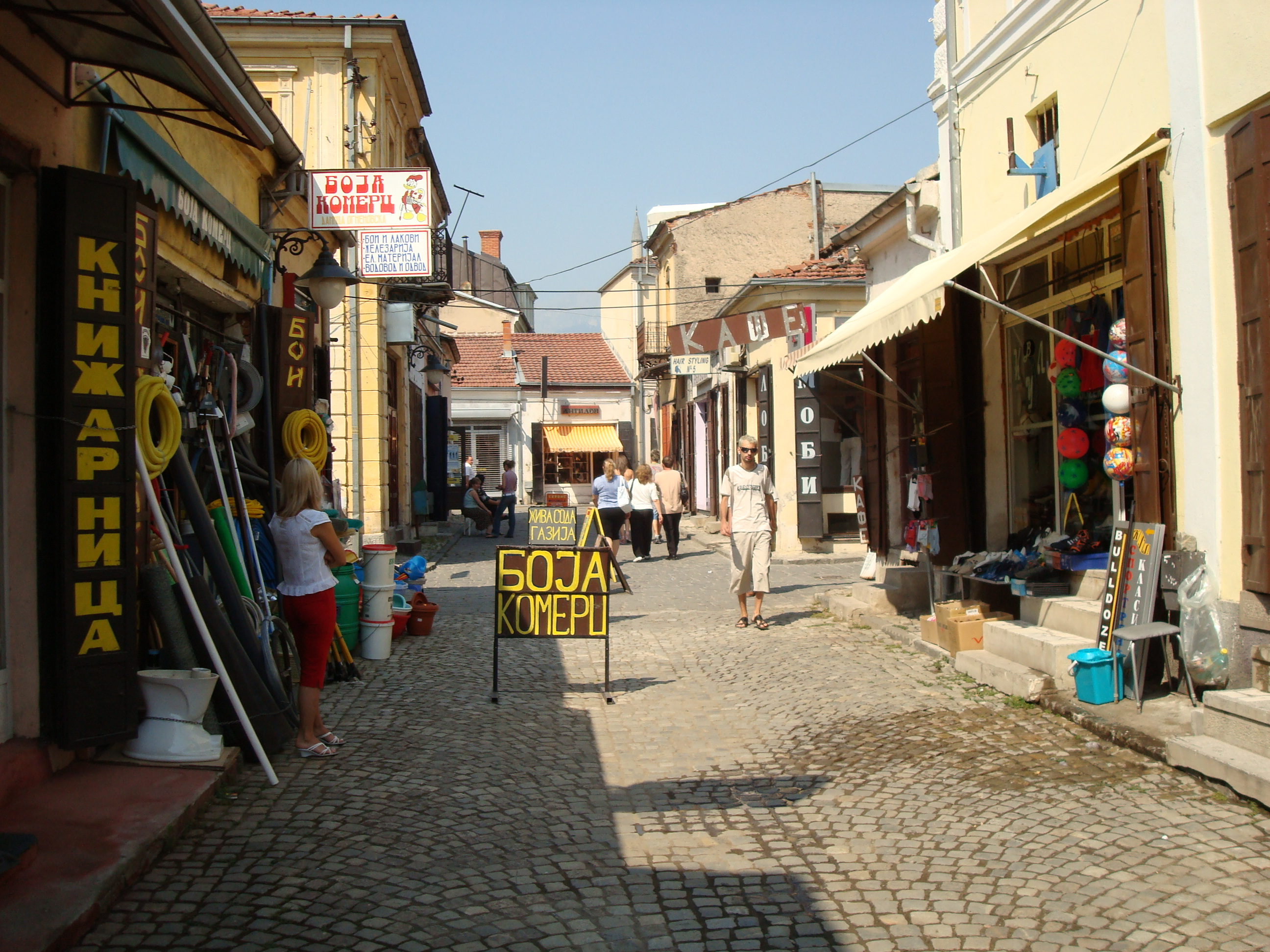 Old market in Bitola, Macedonia.